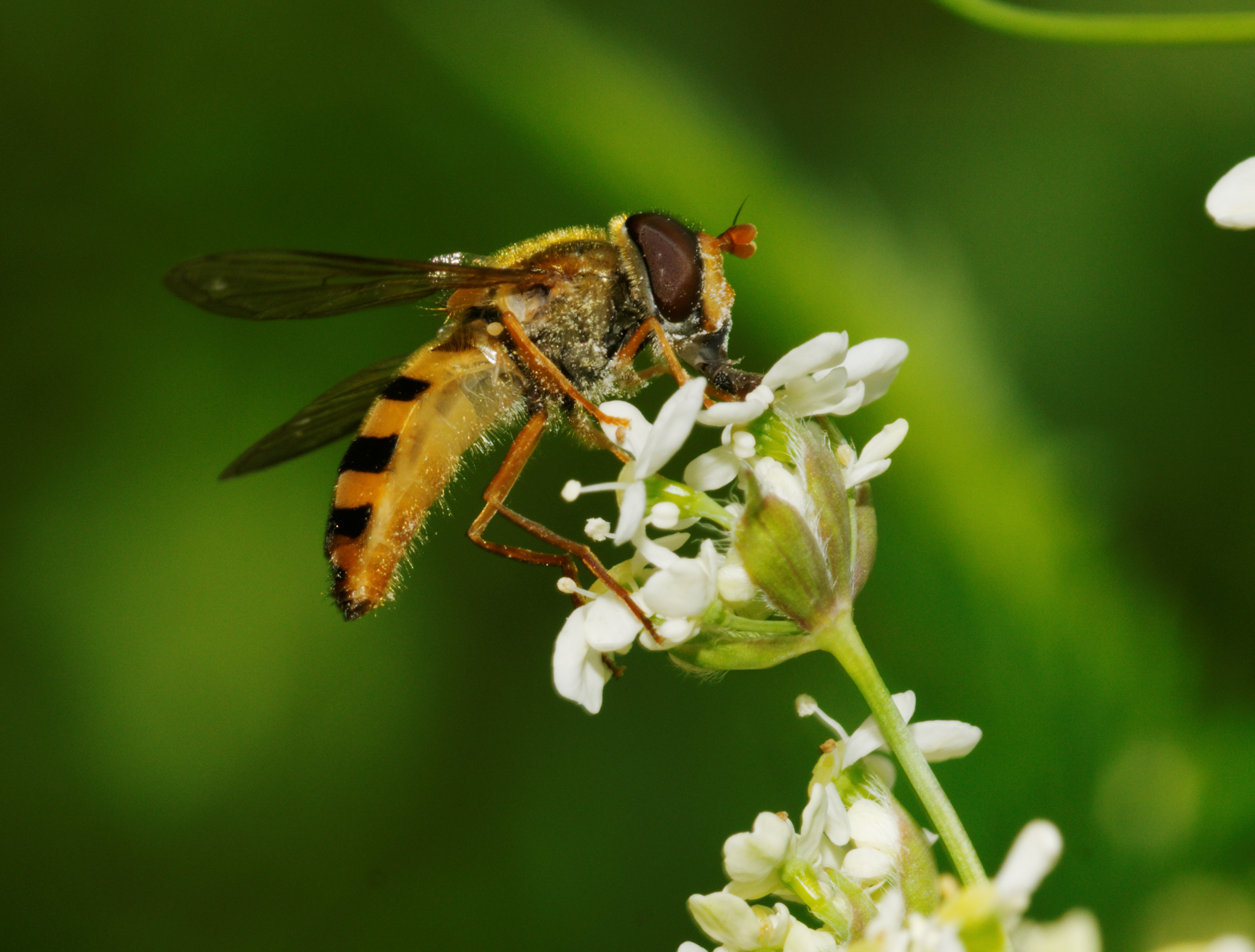 This photograph was taken with a Nikon D300 Syrphe (Syrphidae sp.) sur une ombellifère (Apiaceae sp.).